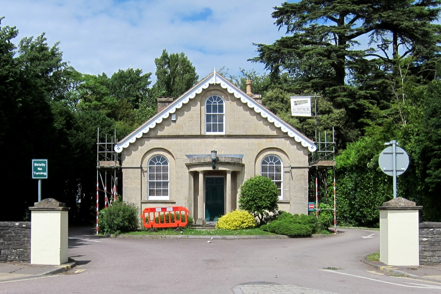 Brislington House was a pioneering private lunatic asylum established by Dr Edward Long Fox (1761-1835), a noted Quaker and physician, in 1804-06. In the landscape he sought to mirror the familiar pattern of the country house estate, with pleasure grounds and parkland surrounding the asylum. In 2001 the asylum building was developed into luxury flats and renamed Long Fox Manor. This photo shows the entrance lodge as seen from the main road (the A4) between Bristol and Keynsham. Further info: .uk/resultsingle.aspx?uid=1001529